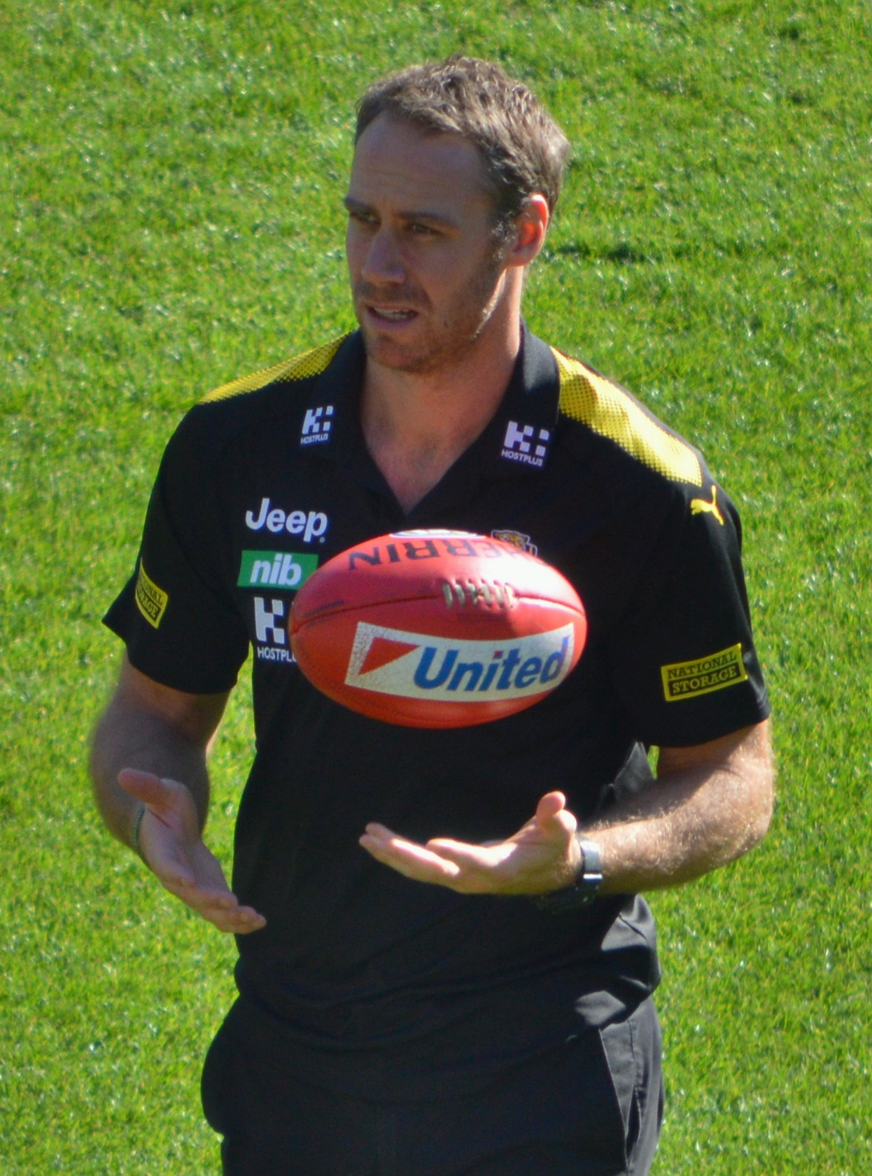 Ben Rutten in his role as Richmond assistant coach in the pre-game warm-up before round 10 of the 2018 AFL season.